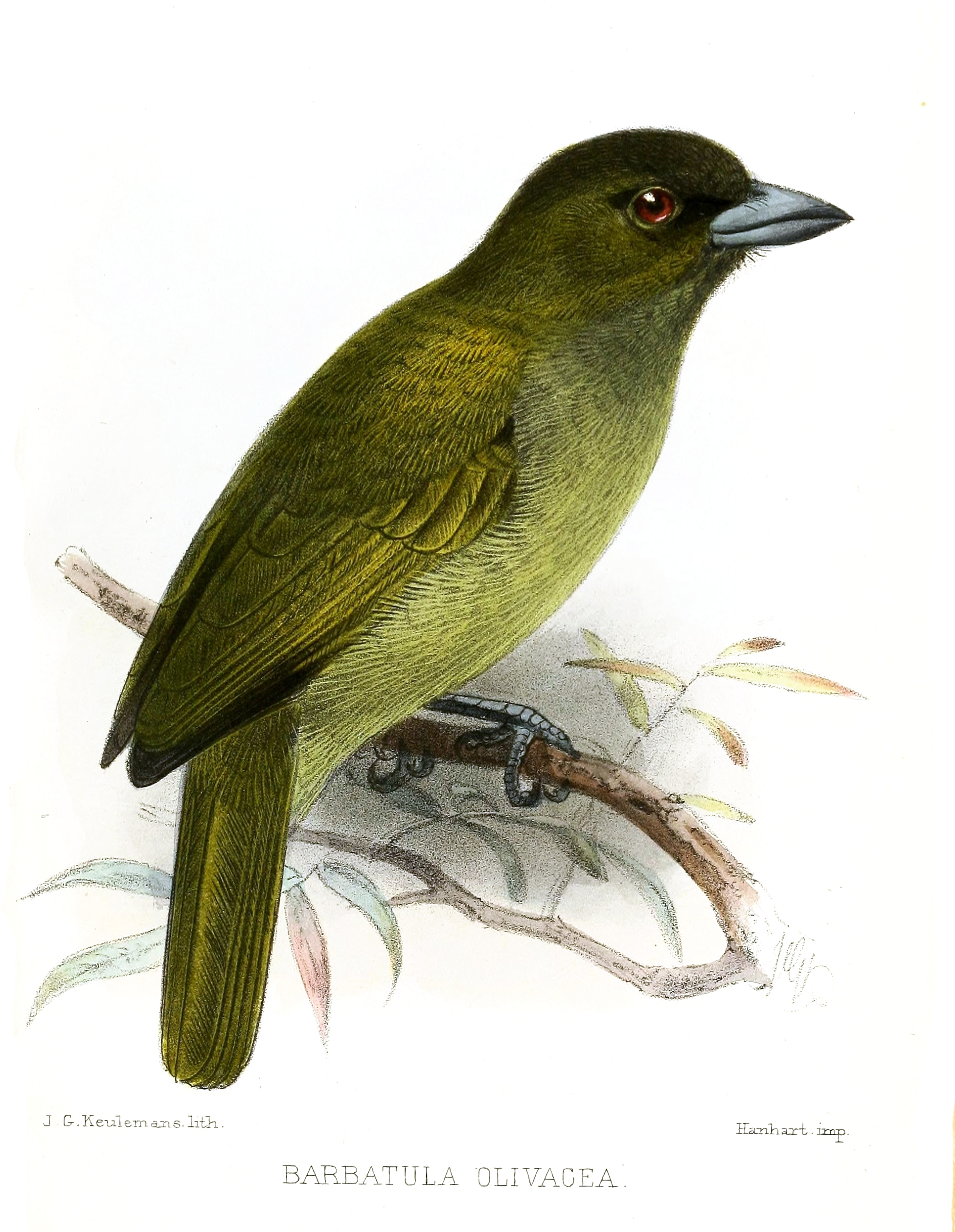 « Barbatula olivacea » = Stactolaema olivacea (Green Barbet)